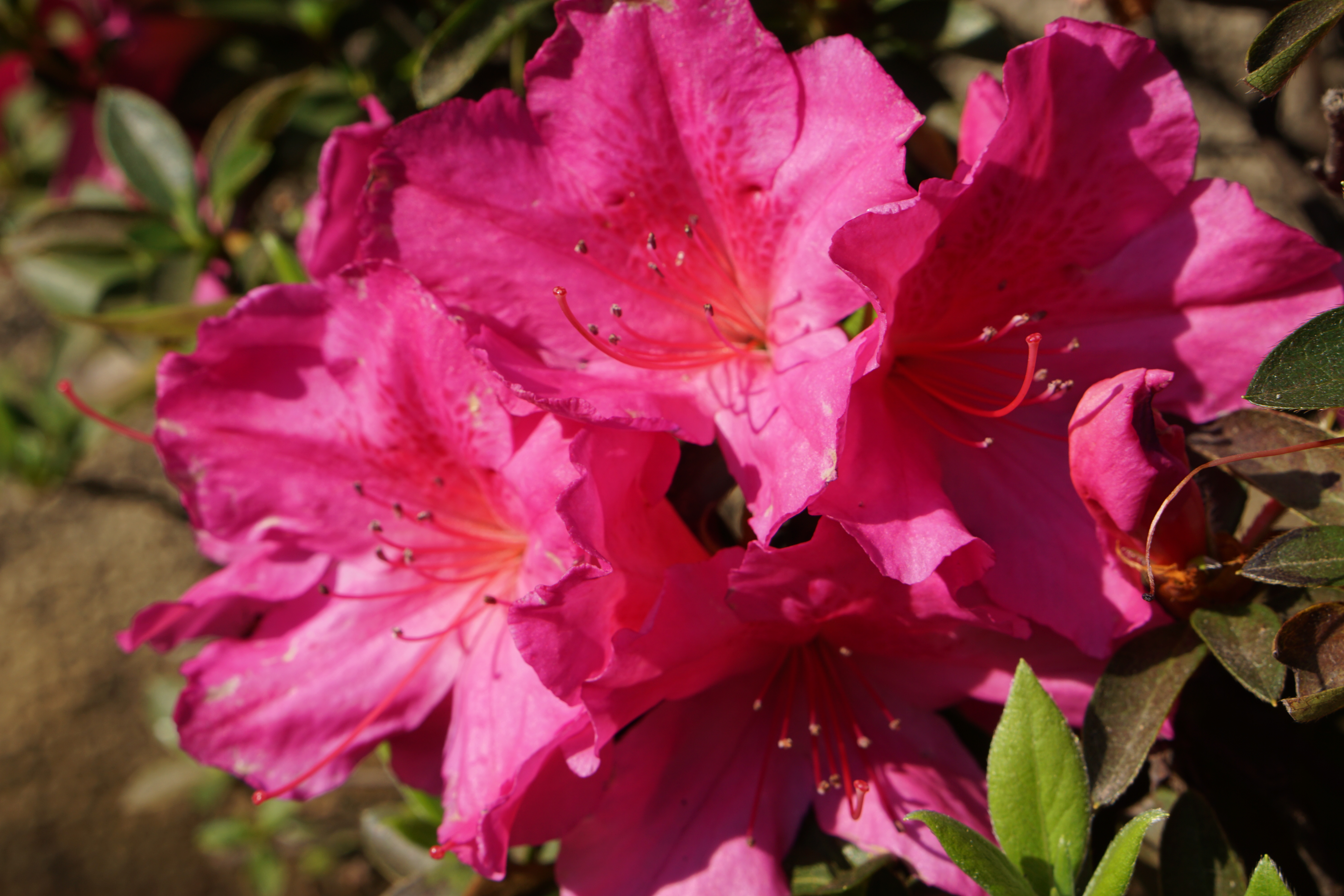 Flower